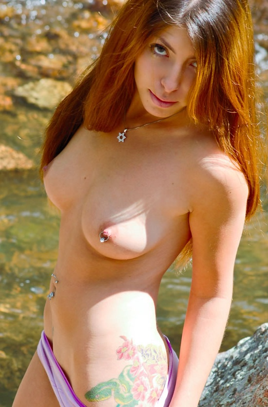 Rocky Mountain